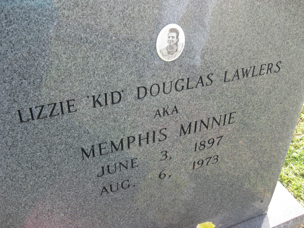 Grave of Memphis Minnie near Walls, Mississippi